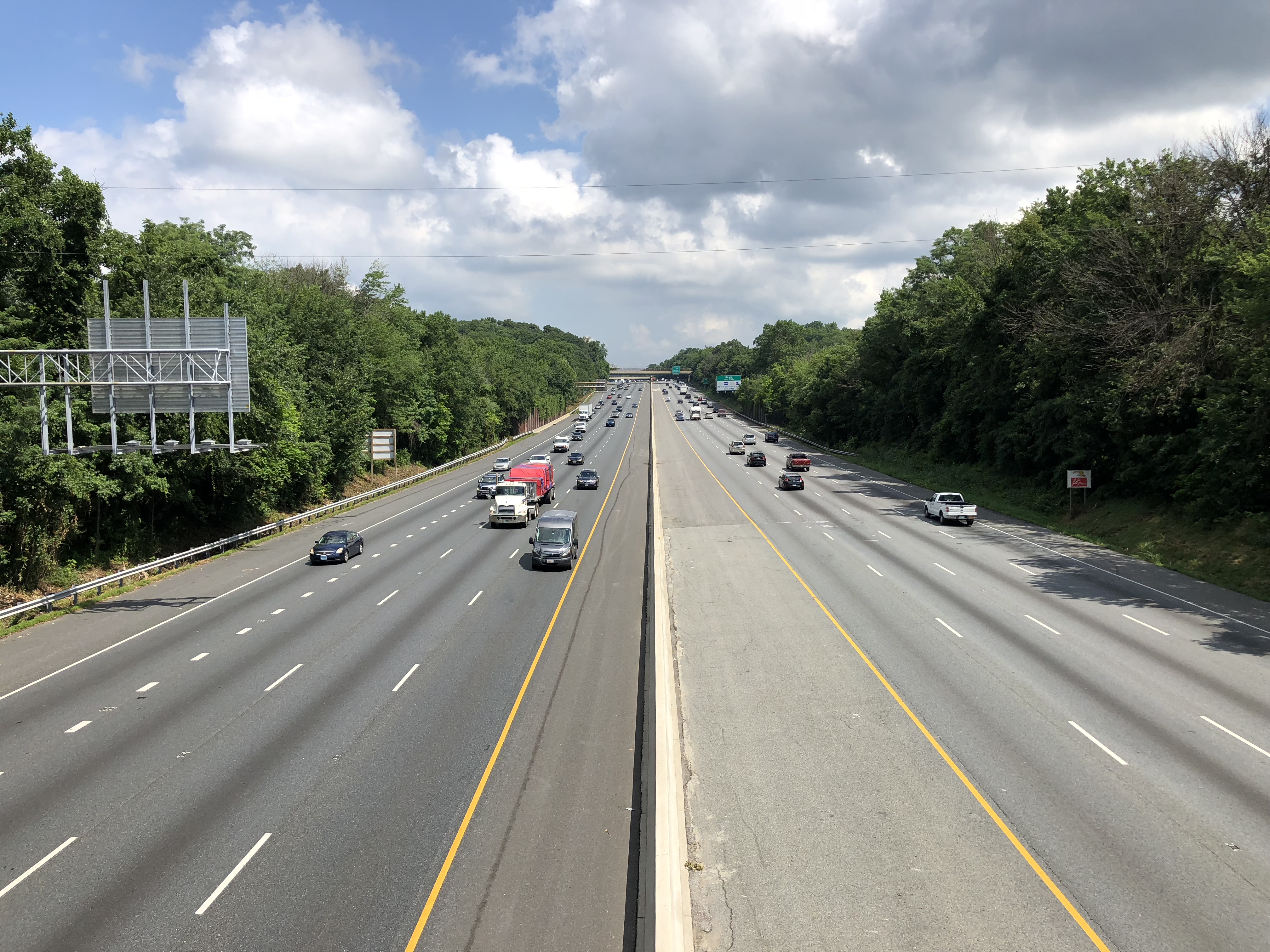 View north along Interstate 95 and Interstate 495 (Capital Beltway) from the overpass for Glenarden Parkway in Glenarden, Prince George's County, Maryland